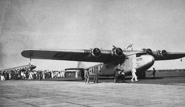 Photo taken by an employee of the British government prior to 1956. Original photo is found on: [1]